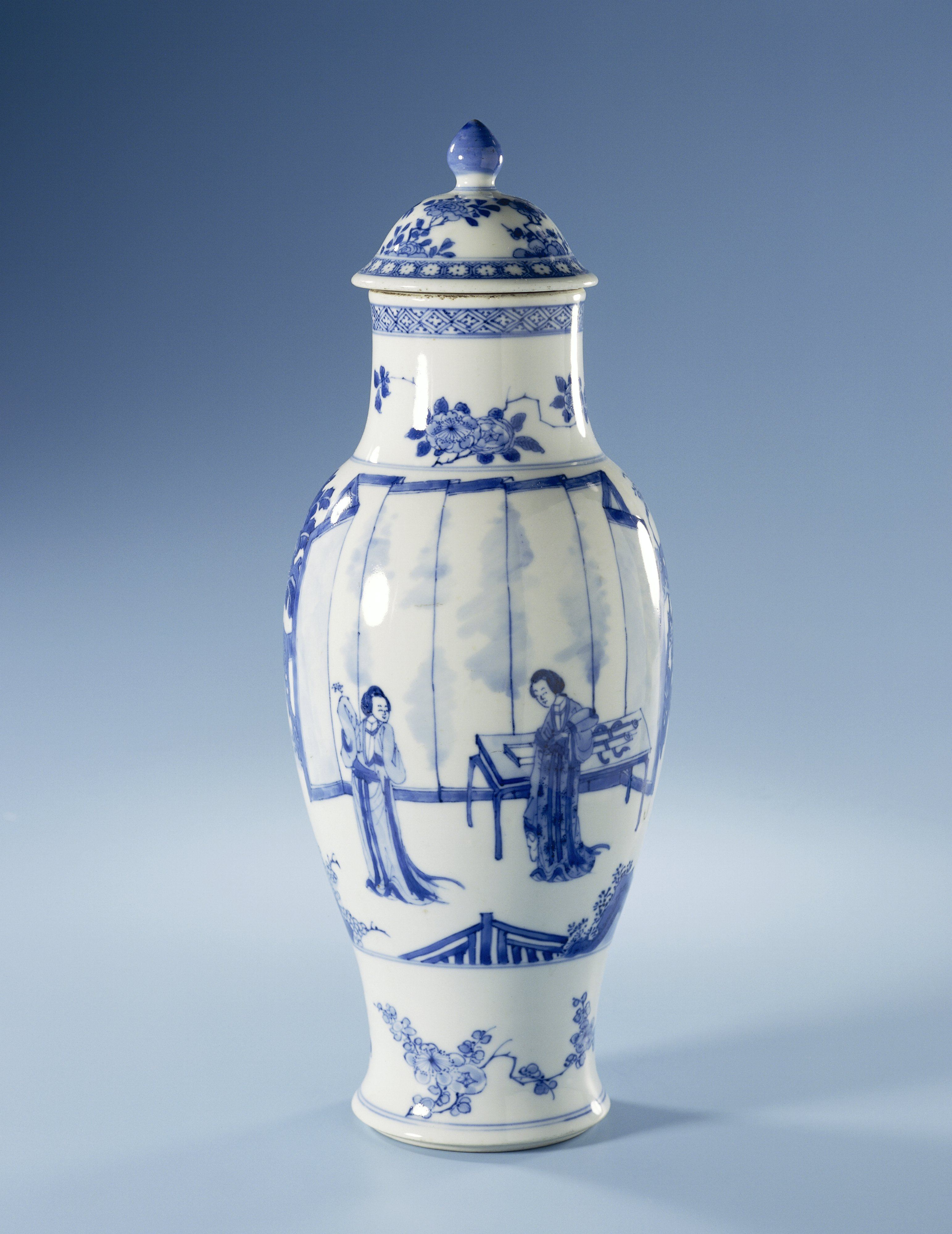 A blue-white vase with a cover, decorated with two lange lijzen (Long Elizas). From the Kangxi period. Artist and manufacturer unknown. The cover does not belong to the vase.